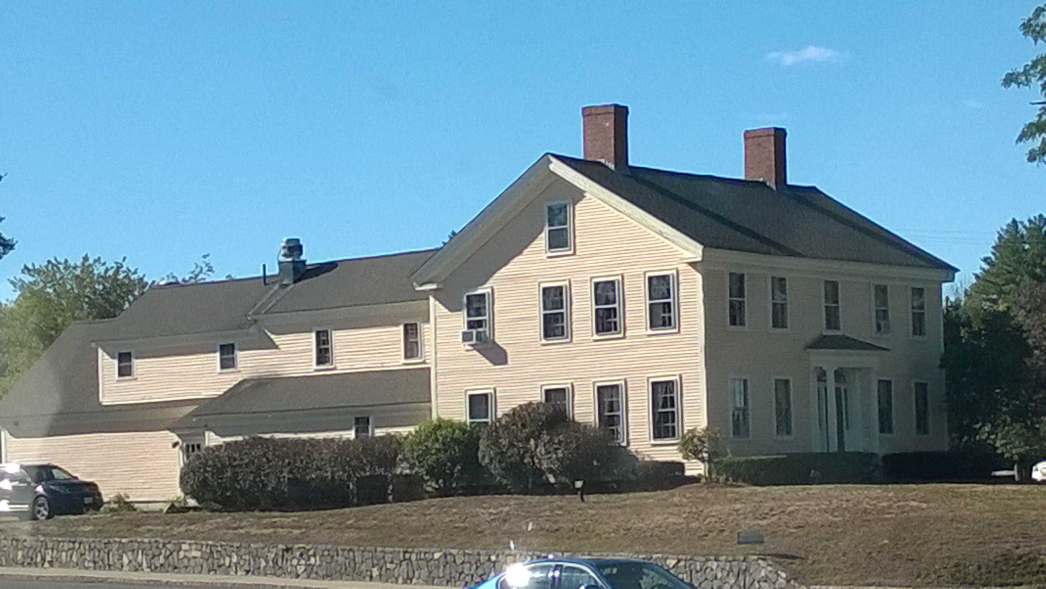 Thorntons Ferry, Merrimack, NH